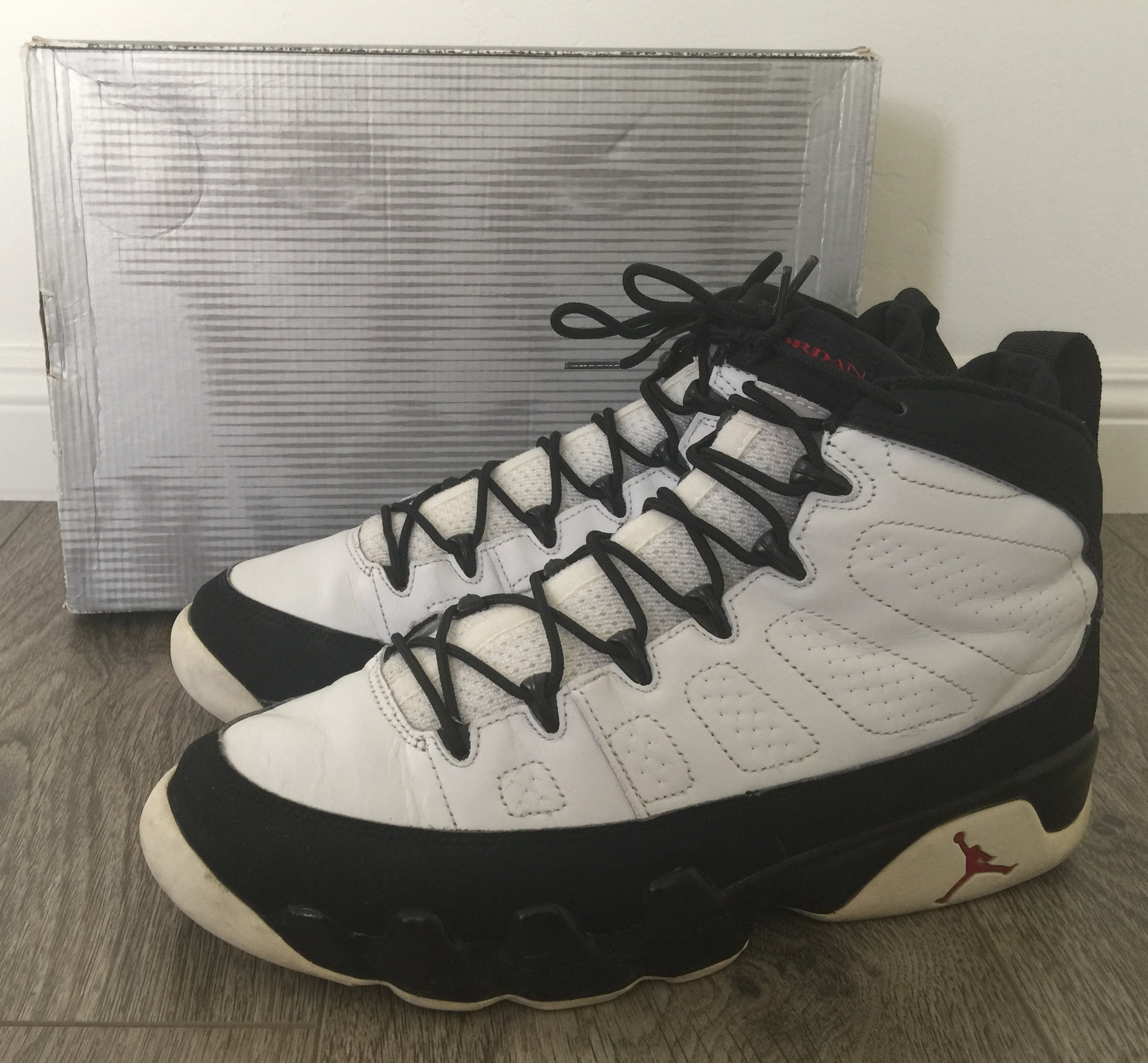 Nike Air Jordan IX, (Bulls Colorway)